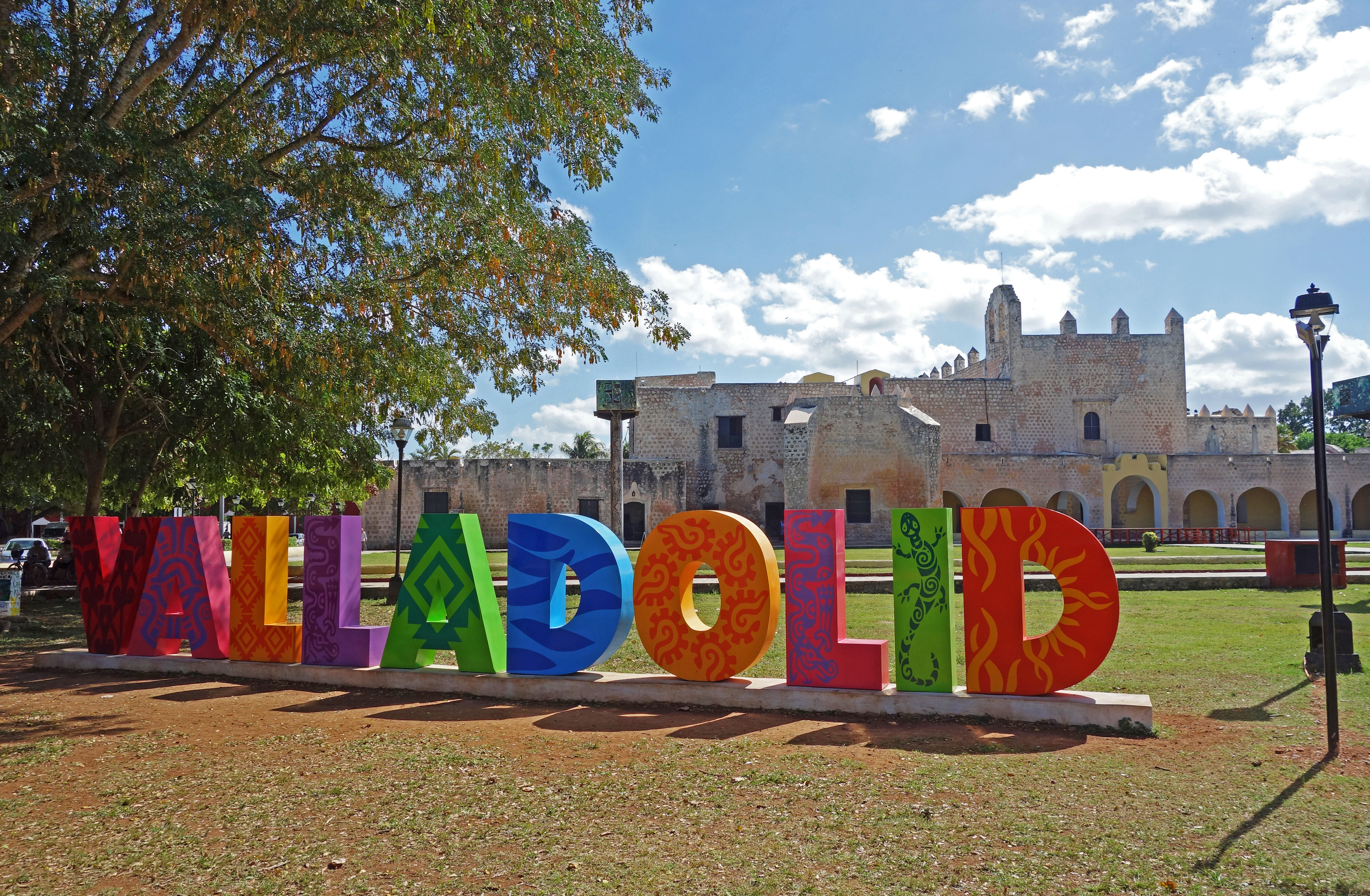 Name of the city of Valladolid in front of Convento de San Bernardino de Siena, Valladolid, Yucatán, Mexico